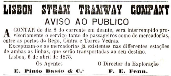 Notice for the temporary suspension of the Larmanjat trains, in Portugal. This image was published on the Diario Illustrado newspaper No. 886, of 8th April 1875, and scanned by the Biblioteca Nacional de Portugal.